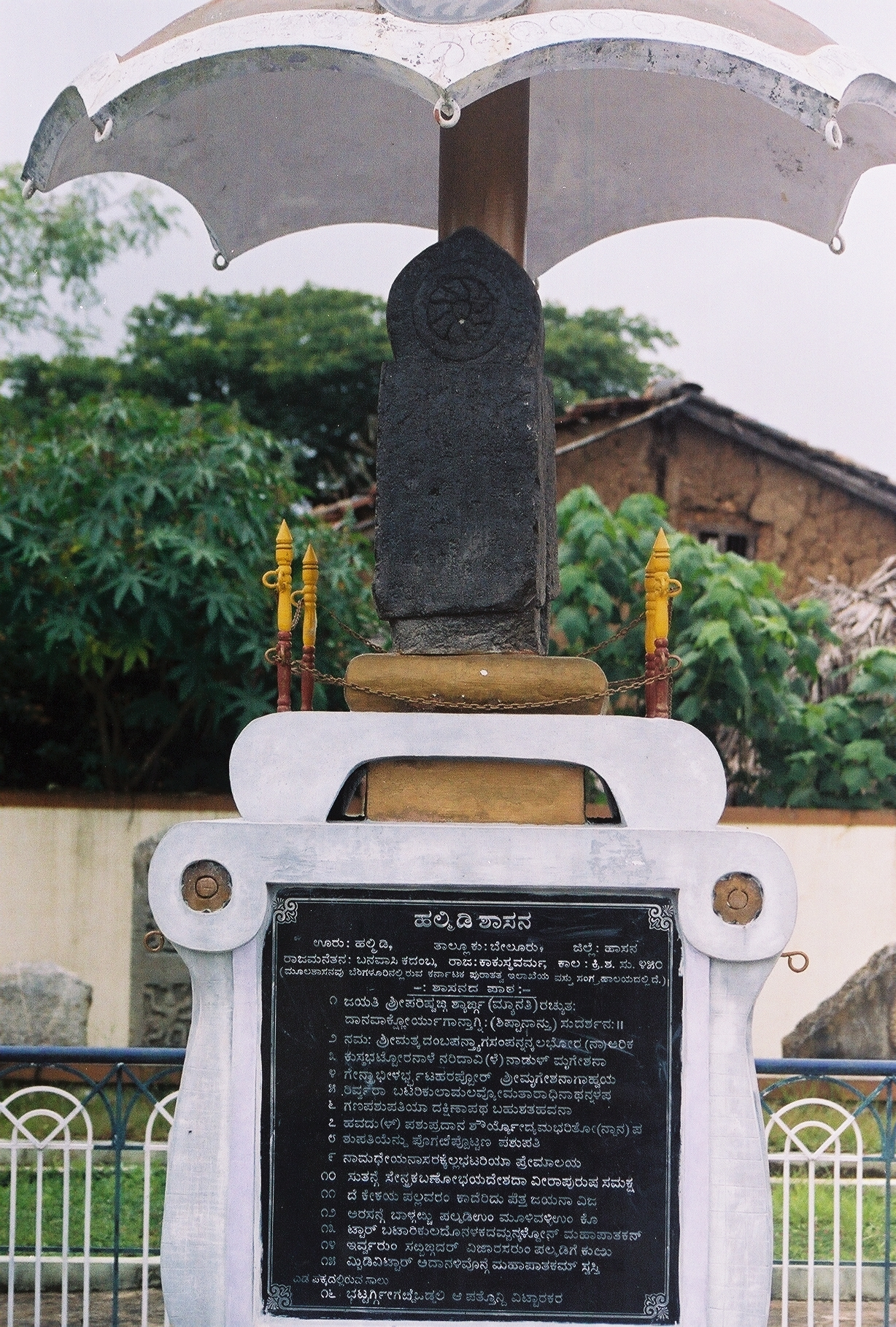 The Halmidi inscription mounted on a pedastal at Halmidi village, Hassan district, Karnataka state, India